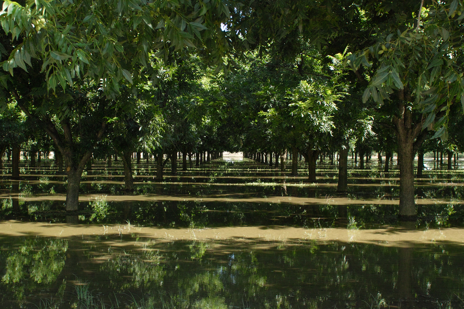 Pecan orchard under irrigation, Anthony, NM, Sept. 2012